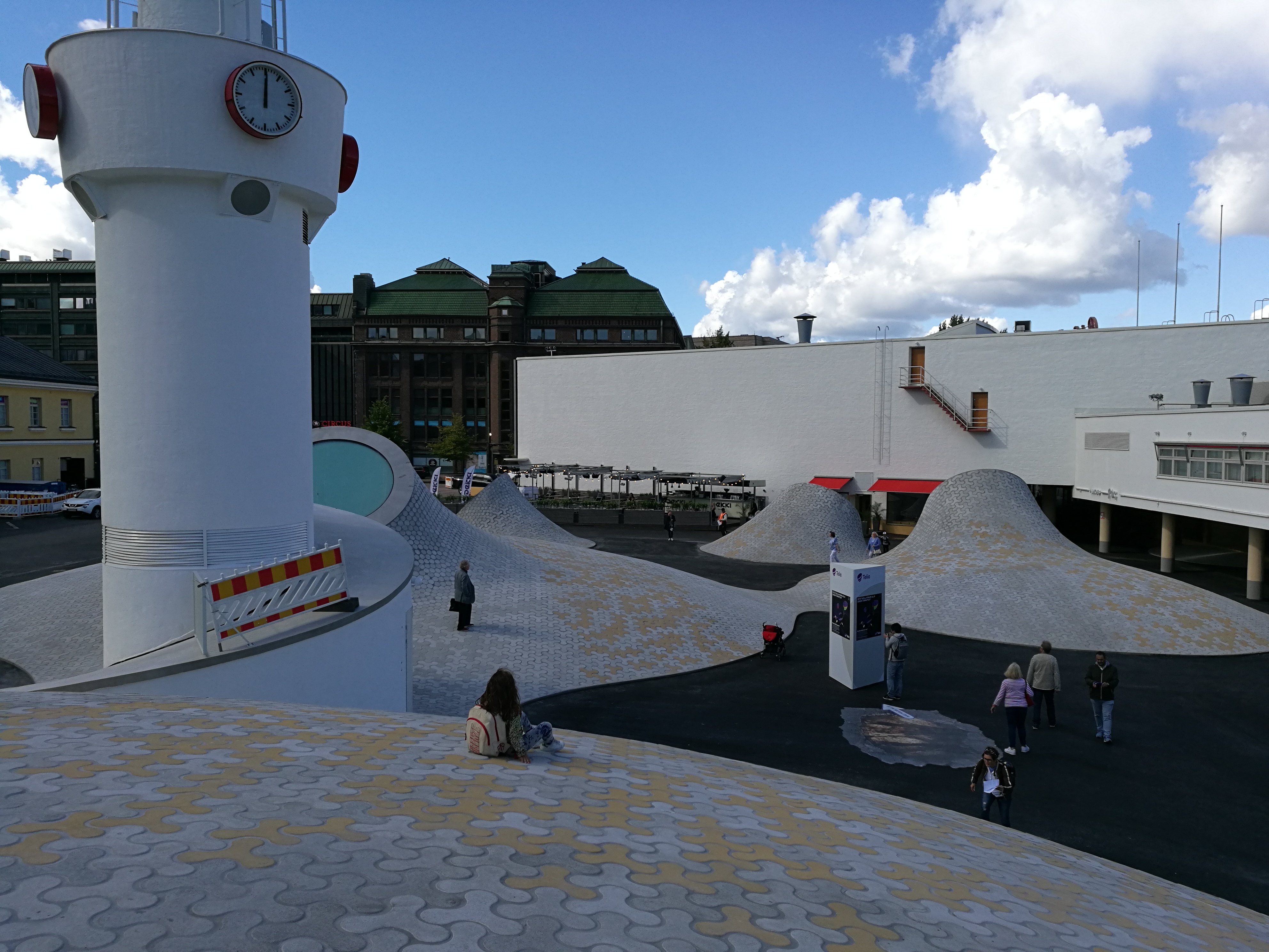 The art museum of Amos Rex.